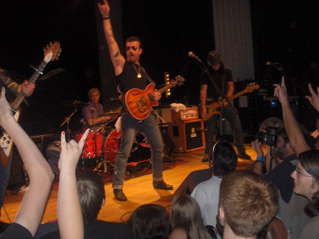 I took this photo and allow it's use under creative commons license.